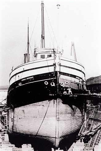 The steamer George Spencer in dry dock